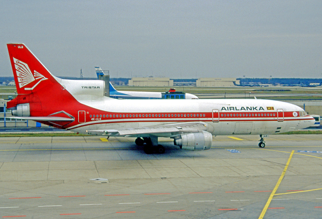 Lockheed L-1011 TriStar 500 4R-ULB of Air Lanka at Frankfurt Airport in 1992